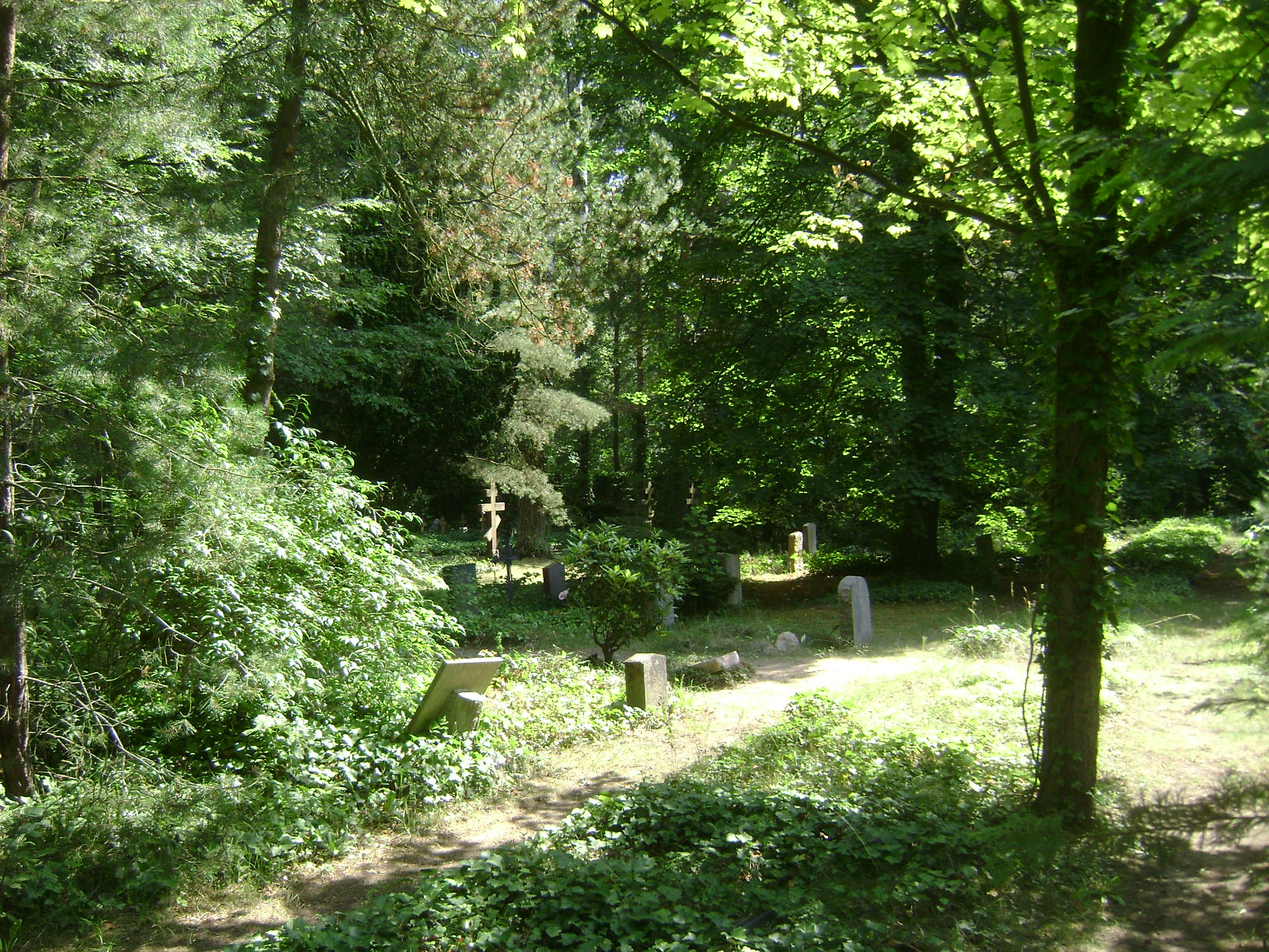 Germany. Berlin